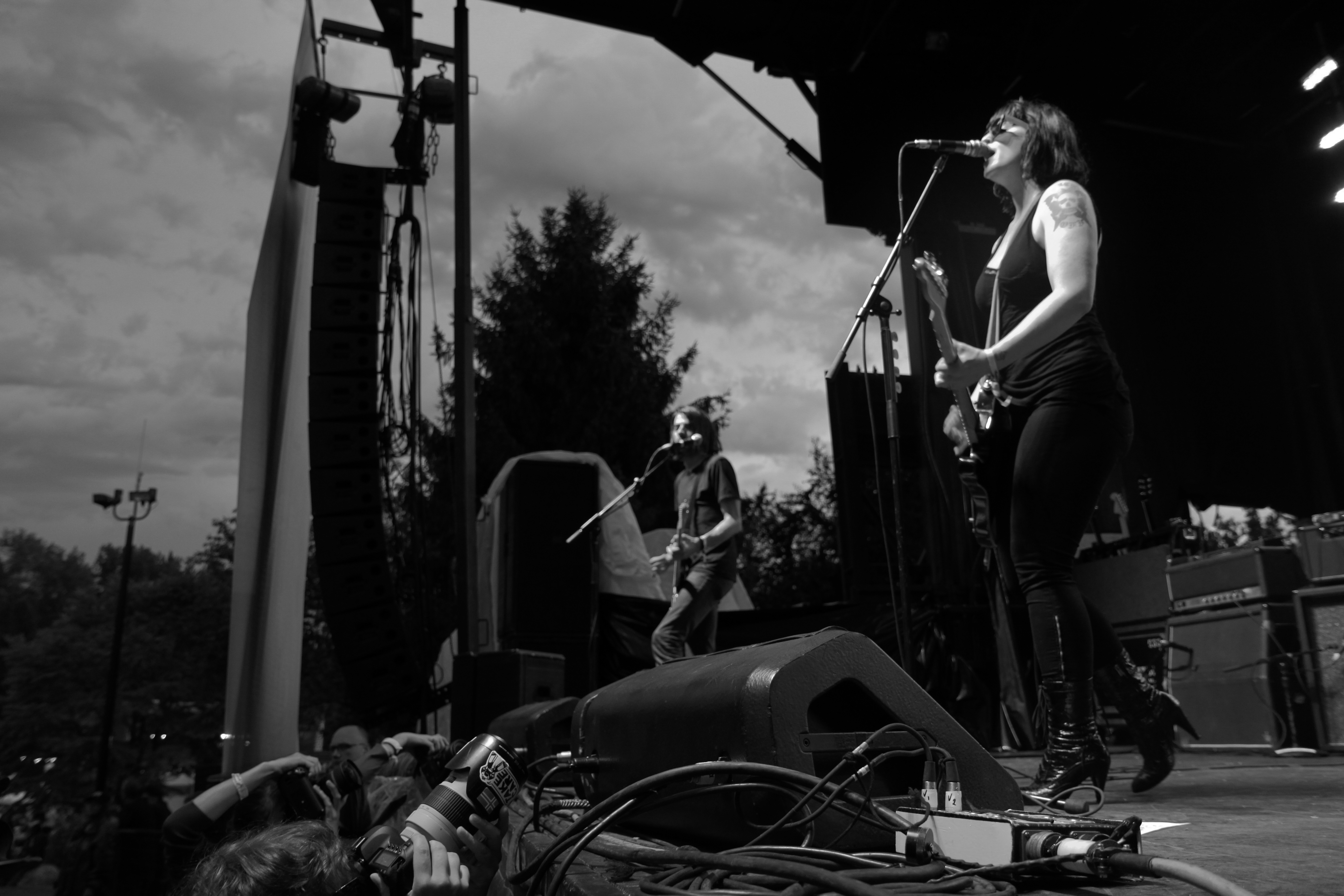 Spinnerette playing the B.C Virgin Fest at Deer Lake Park